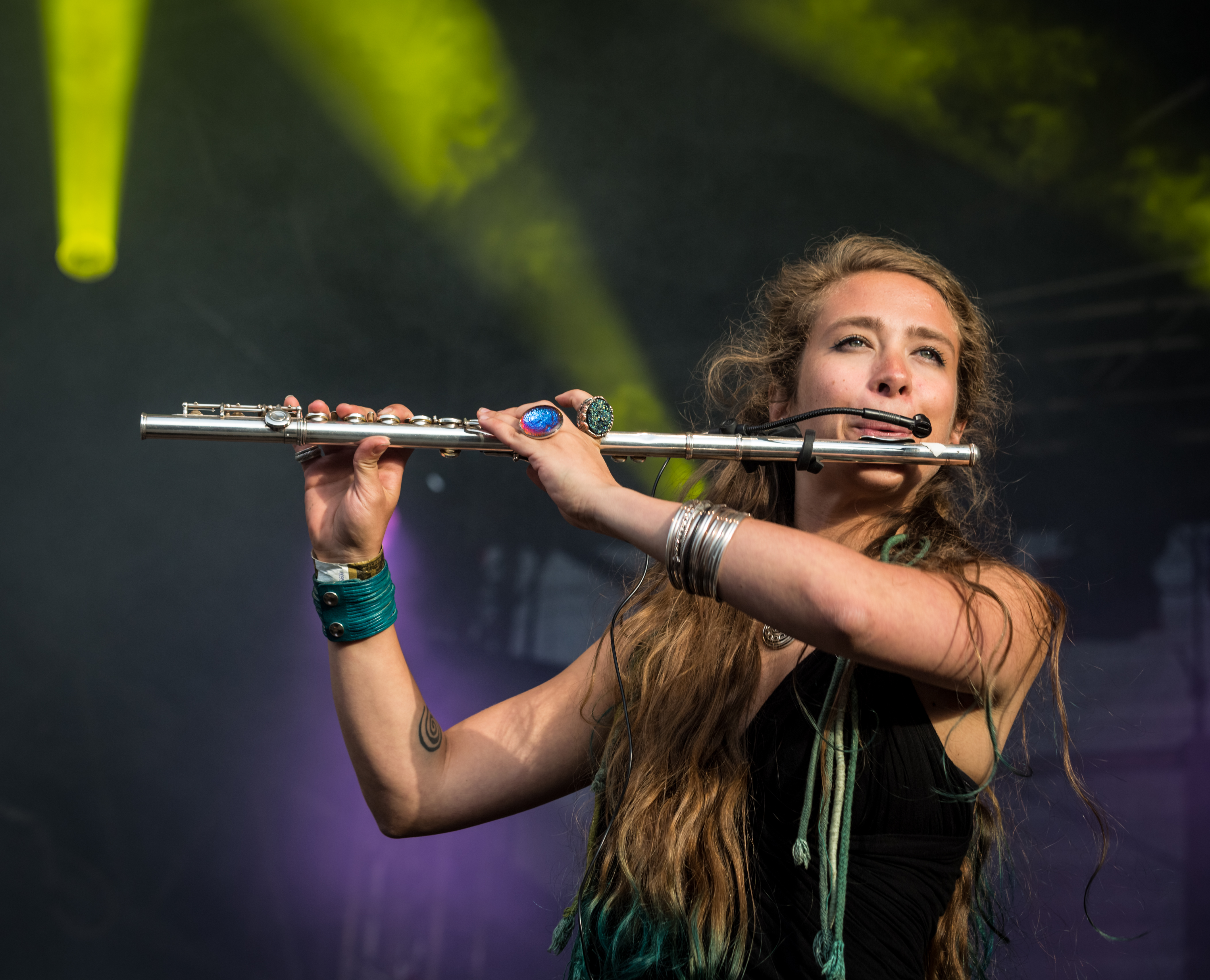 Vroudenspil - Wacken Open Air 2015